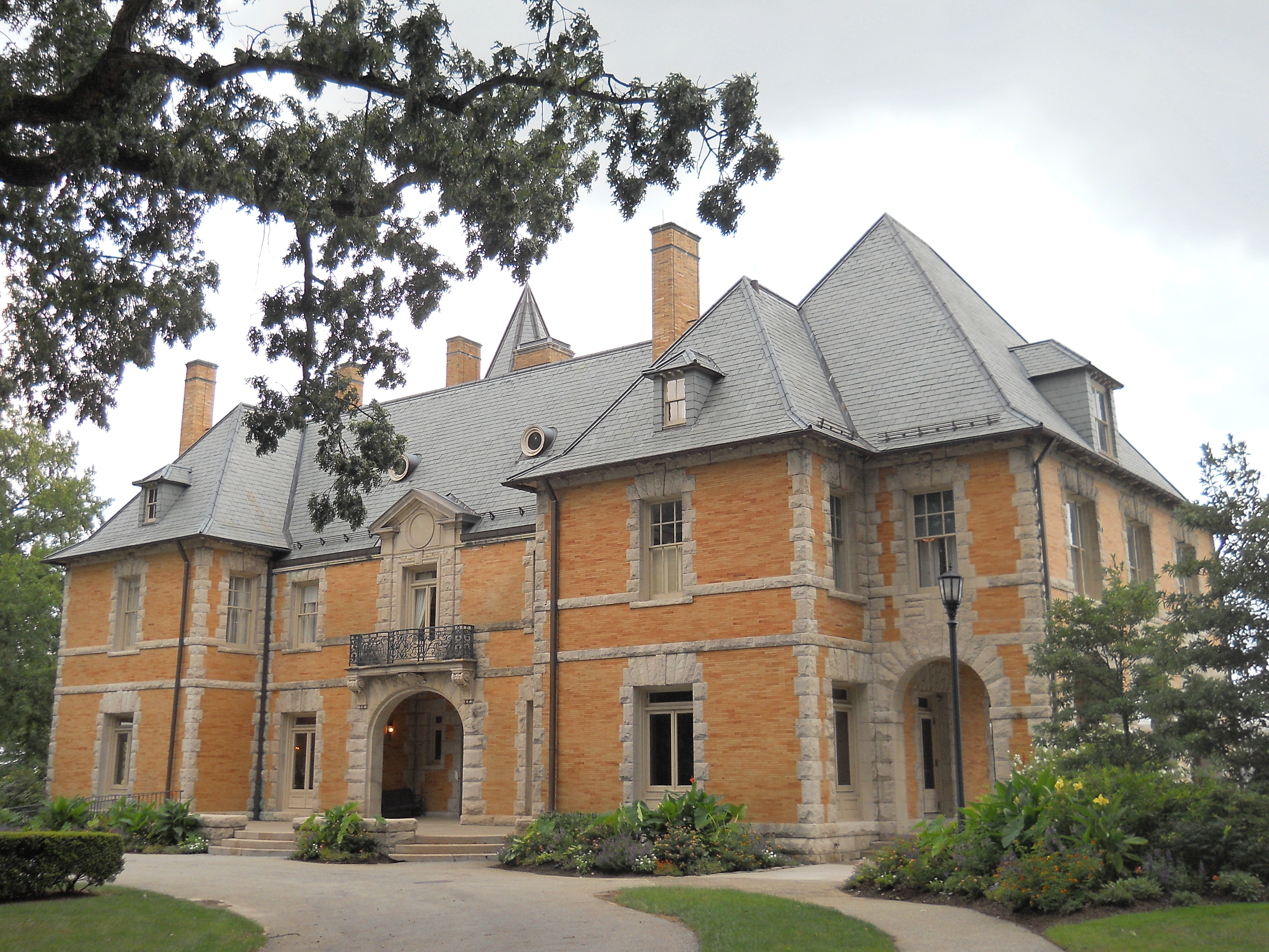 Cairnwood Cairnwood Estate, main building